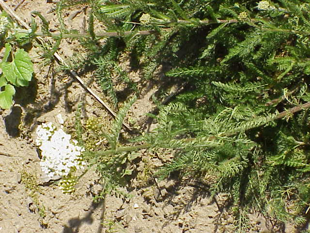 Species: Achillea asplenifolia Family: Compositae Image No. 2